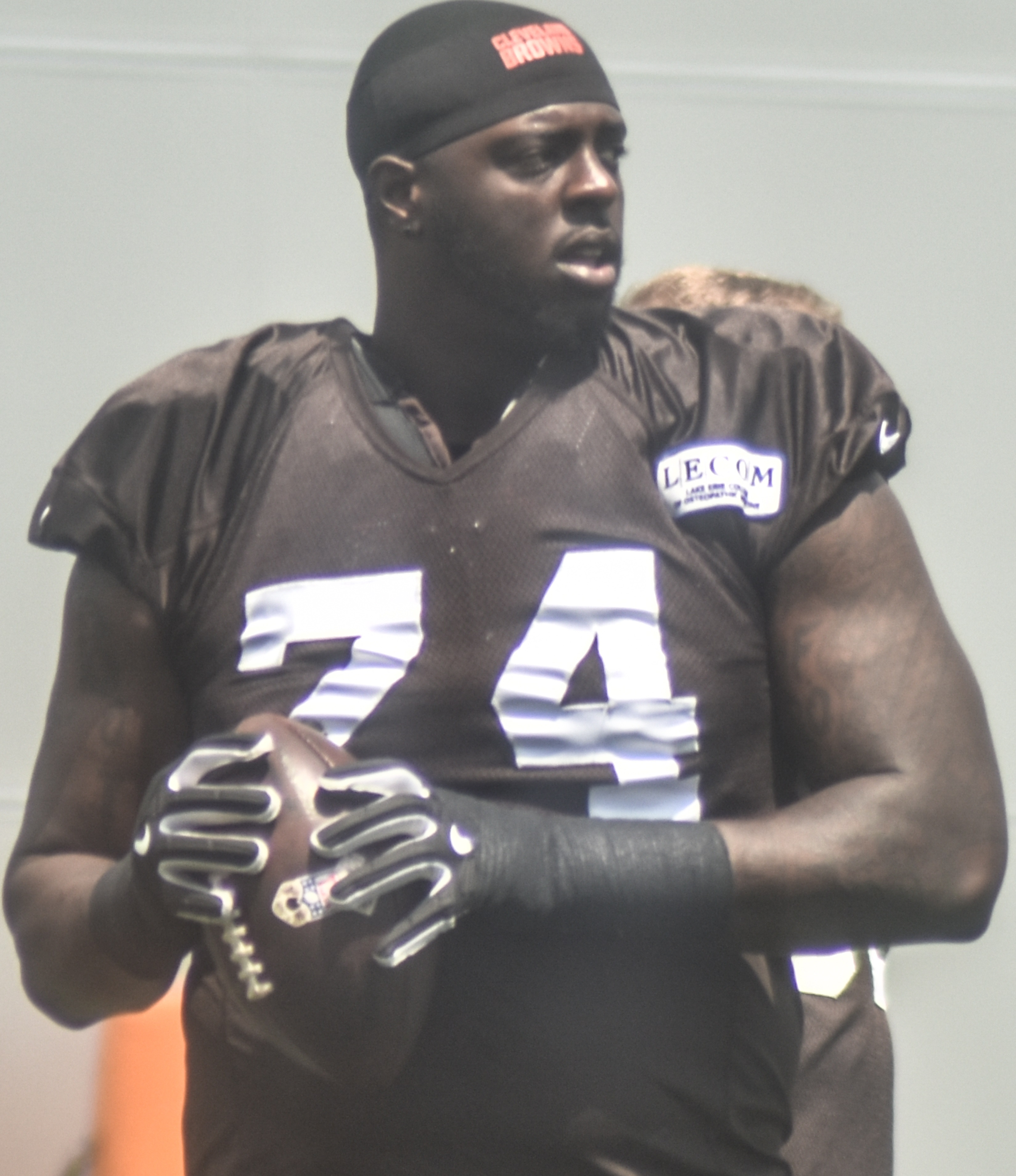 2016 training camp